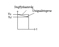 Falltime explanation